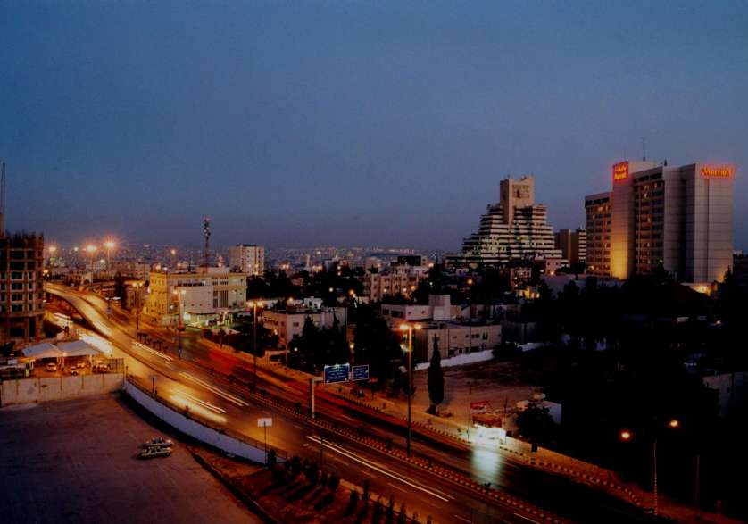 Amman, a view from Hotel Regency br3ayh 2bo dmour